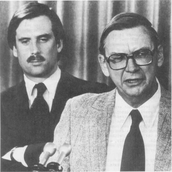 Lieutenant Governor William Scranton (l) and Oran Henderson (r), director of the Pennsylvania Emergency Management Agency, at a March 28 press conference.